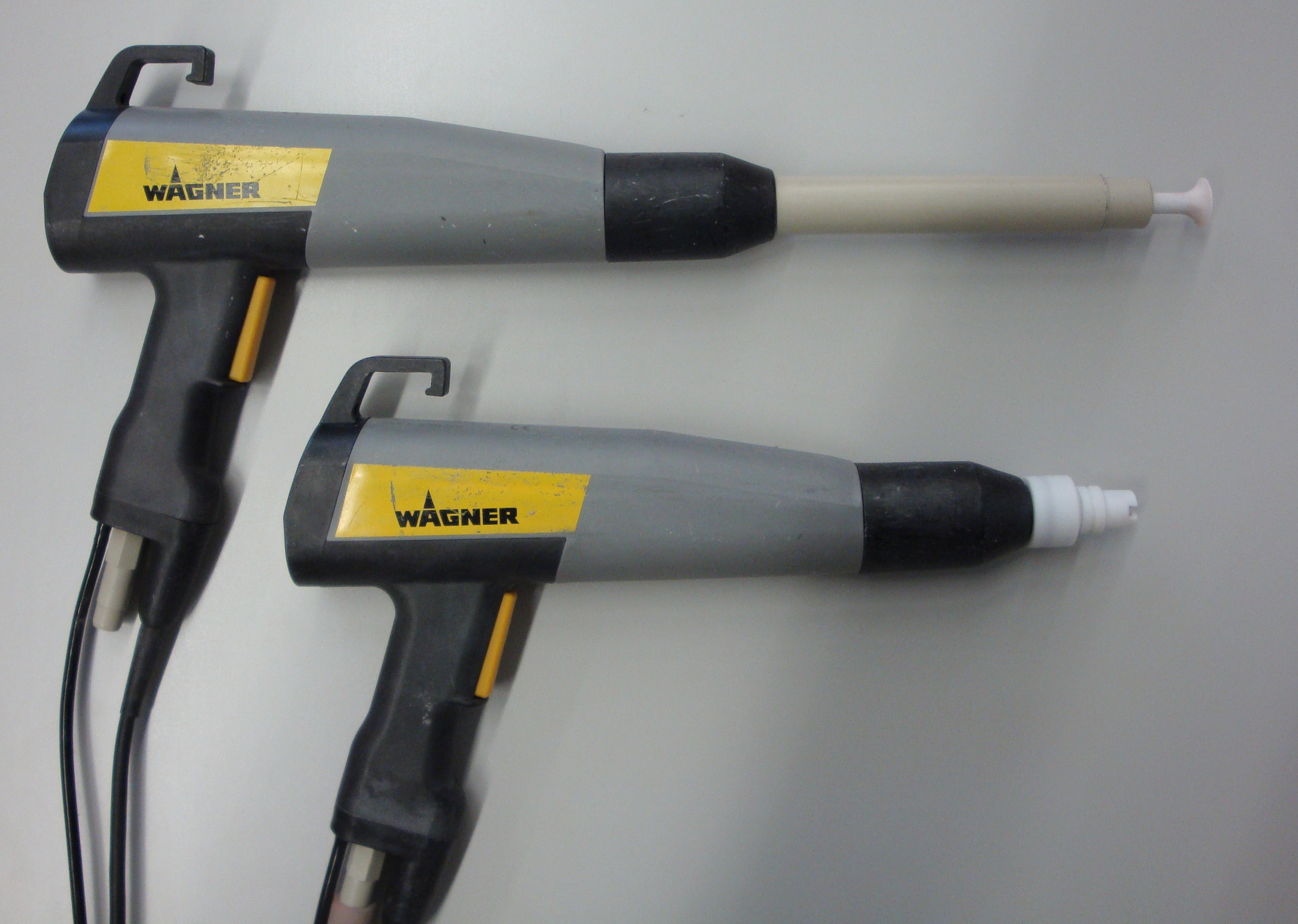 Comparison of powder spray guns (Tribo vs. Corona)